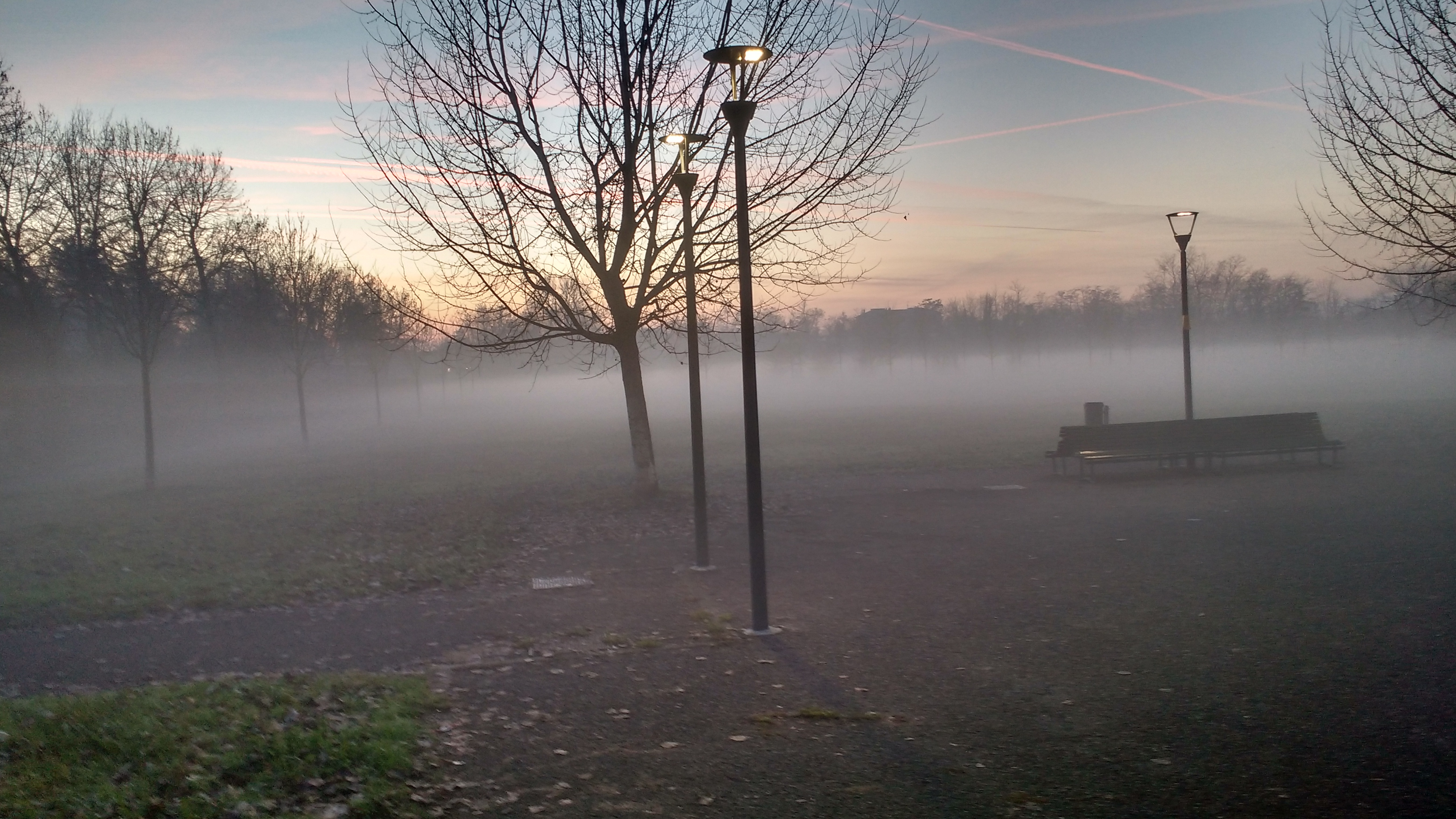 Scighera, a particular fog, in Milan Lumbaart: La scighera a Milan